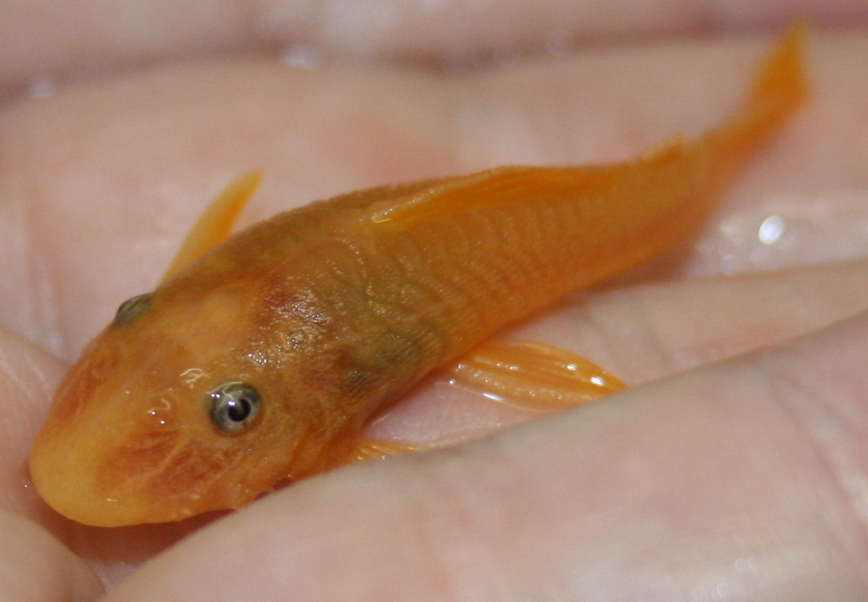 Small L144 Plecostomus